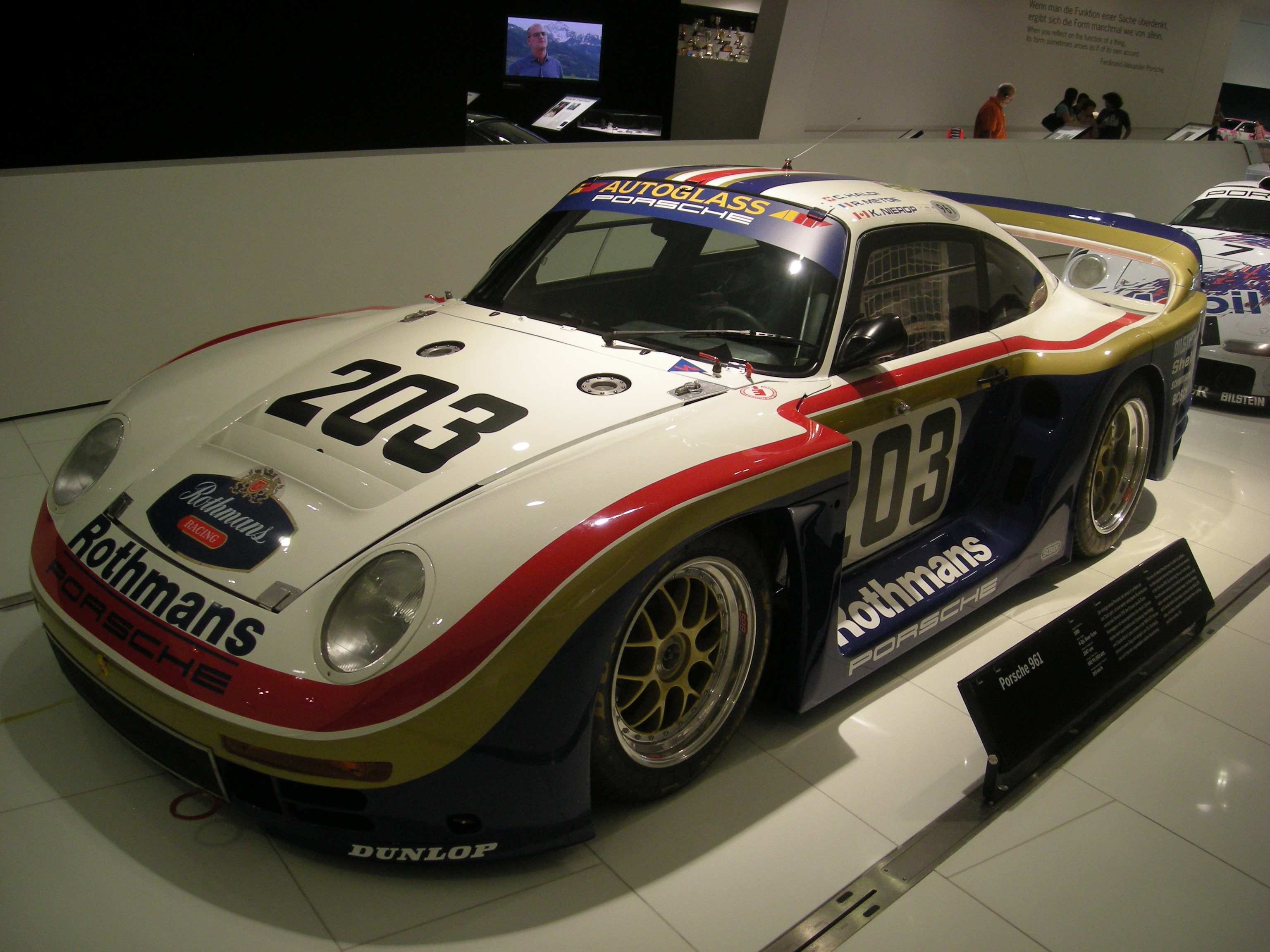 A 1986 Porsche 961 inside the Porsche Museum in Stuttgart, Baden-Württemberg (Germany).